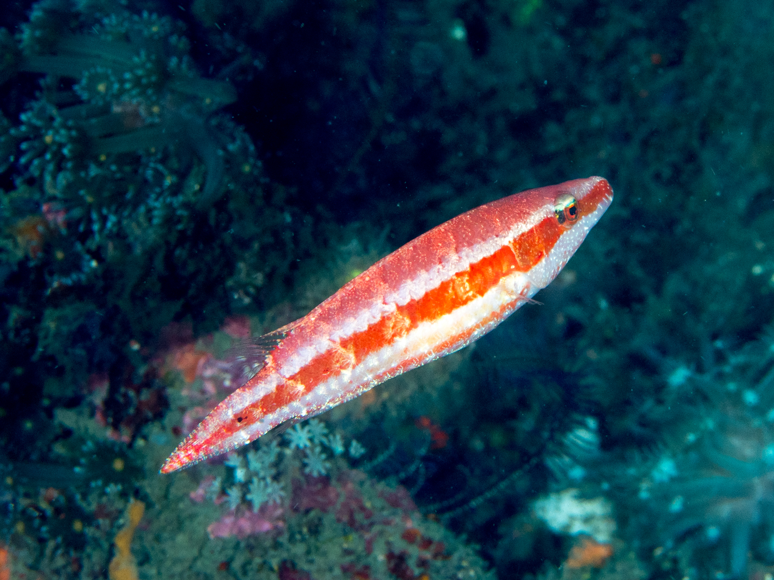 Lembeh, Indonesia - Oriental wrasse (Oxycheilinus orientalis)